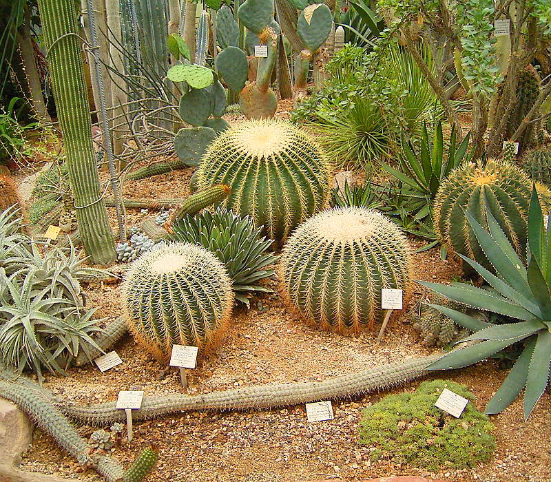 Cactus collection - BG Heidelberg, Germany